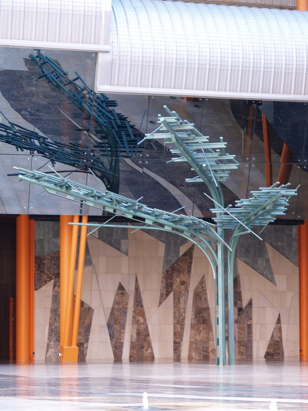 Trade Fair and Congress Center of Malaga, Spain.